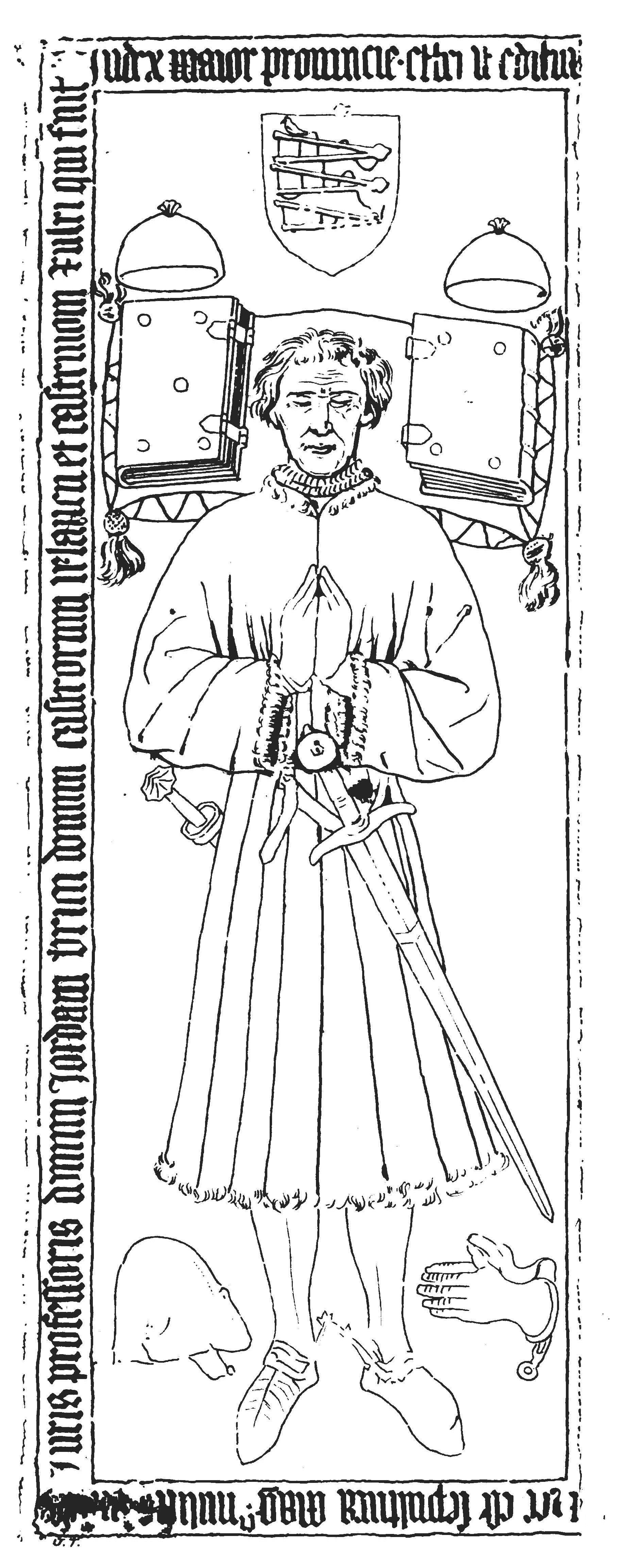 A wax rubbing of a marble slab found in the parish church of Roquemaure, France in 1855. It depicts Jordanus Bricius, a judge and legal scholar, who died in the middle of the 15th century. The Latin text reads: Hec est sepultura mag[ist]ri militis, utriusq[ue] juris professoris, domini Jordani Bricii, domini castrorum Velaucii et Castrinovi-Rubri, qui fuit judex major Provincie, et fecit edifica...